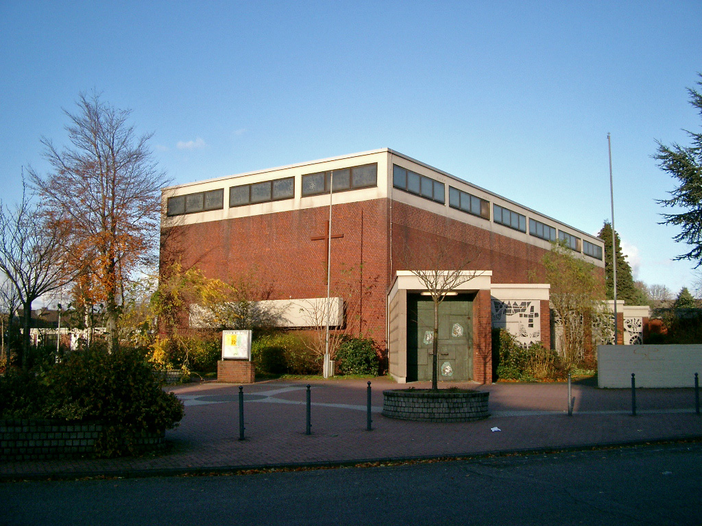 St. Pius Catholic Church in Oberhausen (Germany)